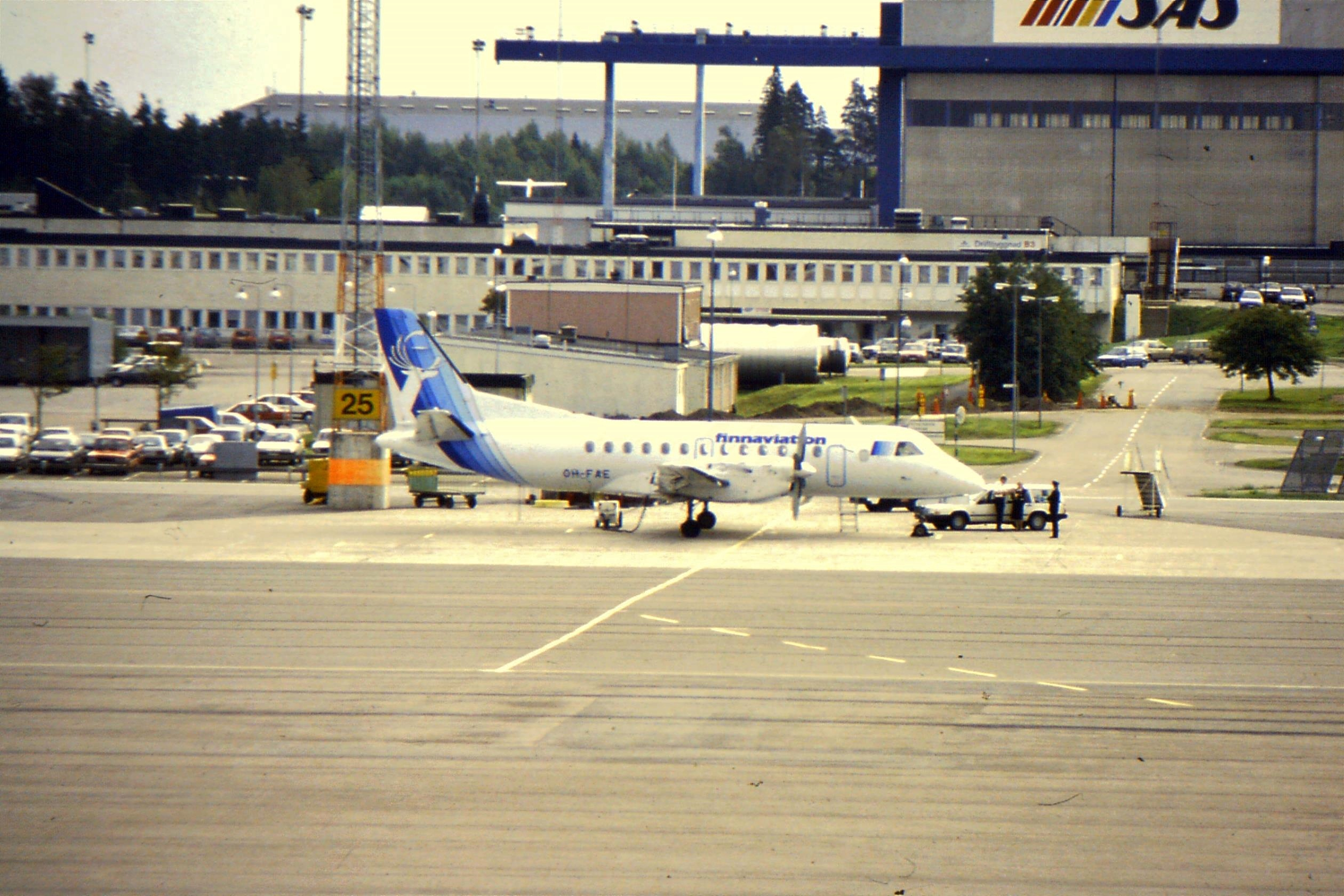 Parked over at the regional aircraft stands is this Finnish Saab probably operating to Mariehamn, located between Stockholm and the Finnish mainland on the Alund Islands.